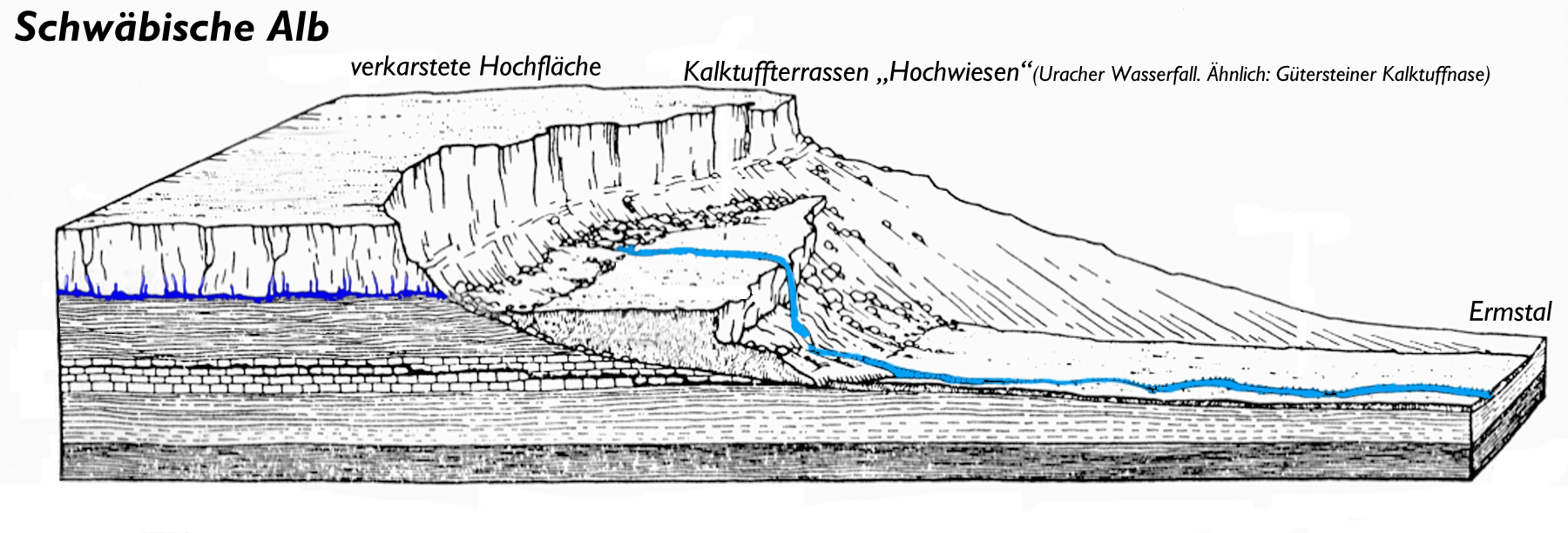 The pictorial schematic shows the plateau, the scarped ridge and special conditions of the slope of a side valley of the Swabian Alb, northwest of Bad Urach. As in many cases of the “Alb’s escarpment the karst springs emerge over impermeable rock layers, where the water eroded Klingen or V-shaped valleys with small or larger floodplains. In the Naturschutzgebiet “Rutschen” (Runder Berg and protection of the plateau and the scarped ridges along river ”Erms”) karst spring water sedimented two large calcareous tuff terraces, called “High Meadows”. Over these terraces’ scarped ridges “Uracher Wasserfall” and Gütersteiner Kalktuffnasen” shed their water.